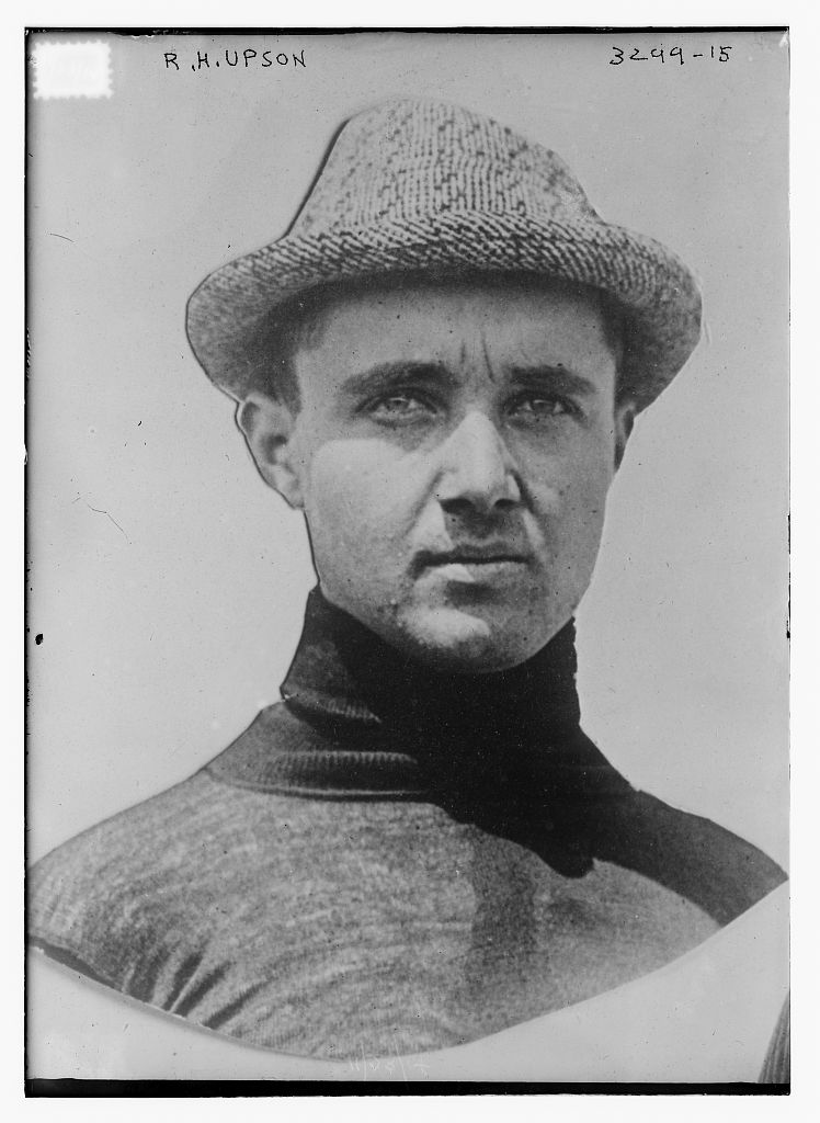 Ralph Hazlett Upson Bain News Service,, publisher. R.H. Upson [between ca. 1910 and ca. 1915] 1 negative : glass ; 5 x 7 in. or smaller. Notes: Title from unverified data provided by the Bain News Service on the negatives or caption cards. Forms part of: George Grantham Bain Collection (Library of Congress). Format: Glass negatives. Repository: Library of Congress, Prints and Photographs Division, Washington, D.C. 20540 USA, General information about the Bain Collection is available at Persistent URL: Call Number: LC-B2- 3299-15